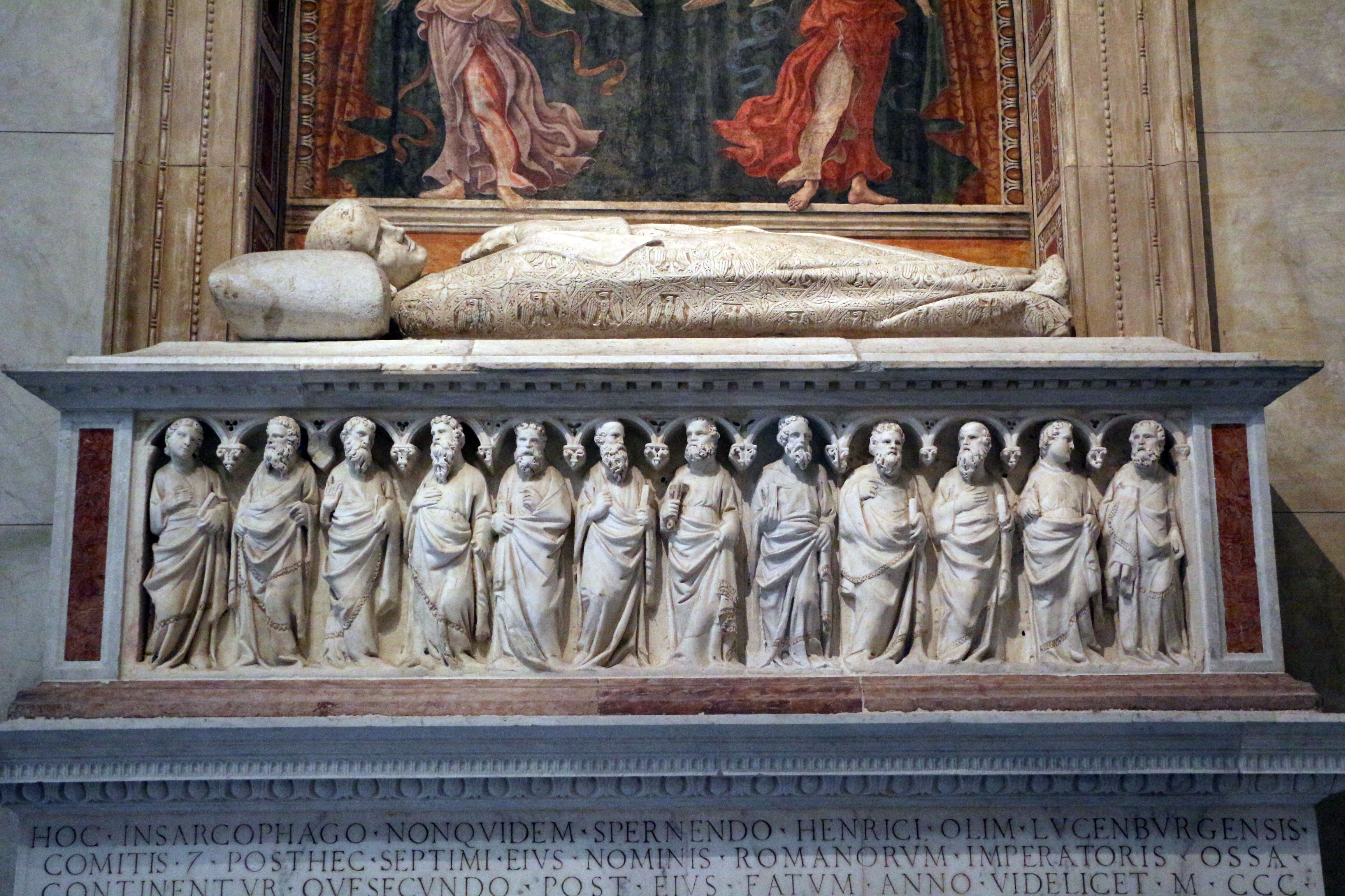 Interior of the Cathedral (Pisa)